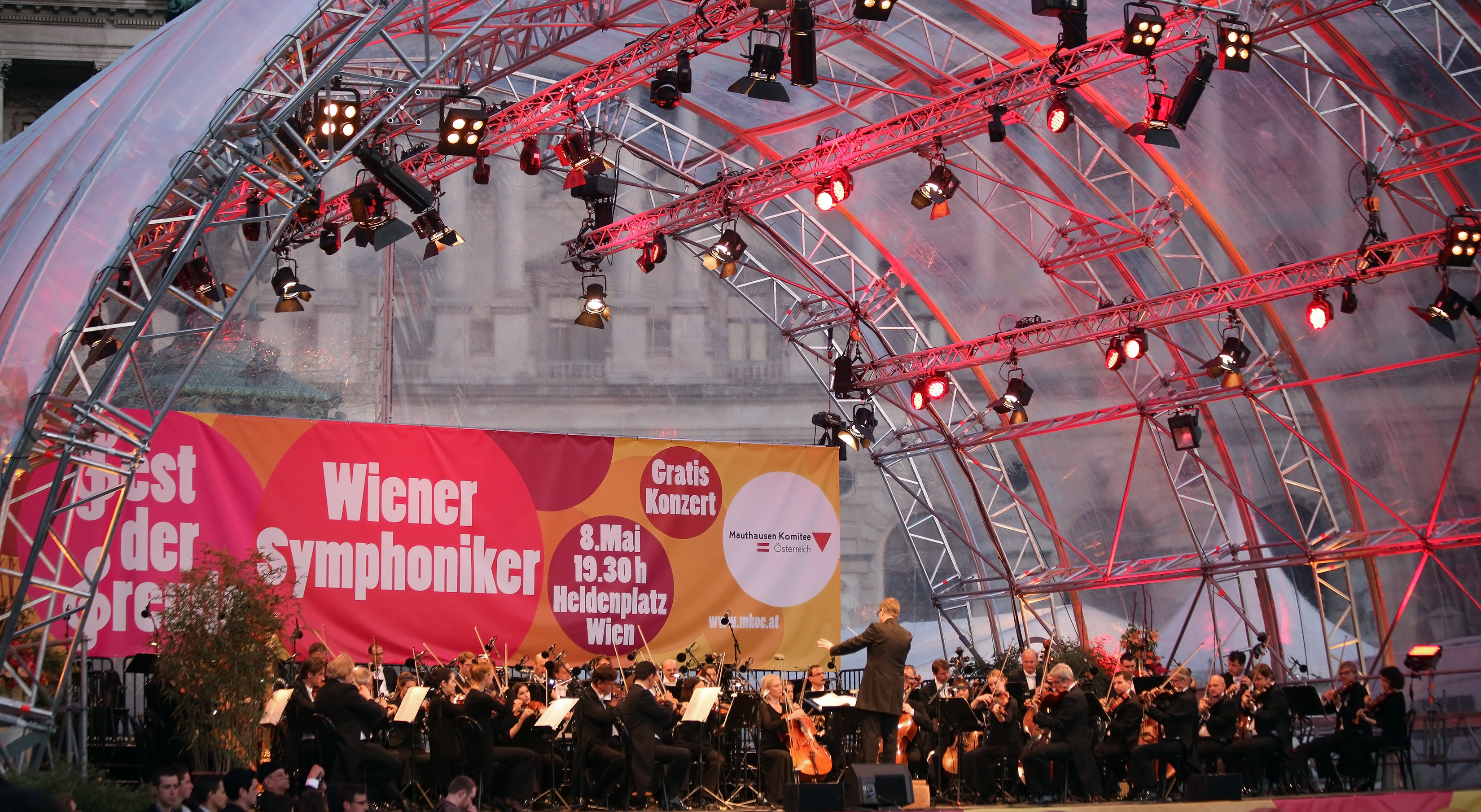 "Fest der Freude" (Festival of Joy) on Heldenplatz in Vienna, Austria. Public concert of the Vienna Symphony with conductor Bertrand de Billy.